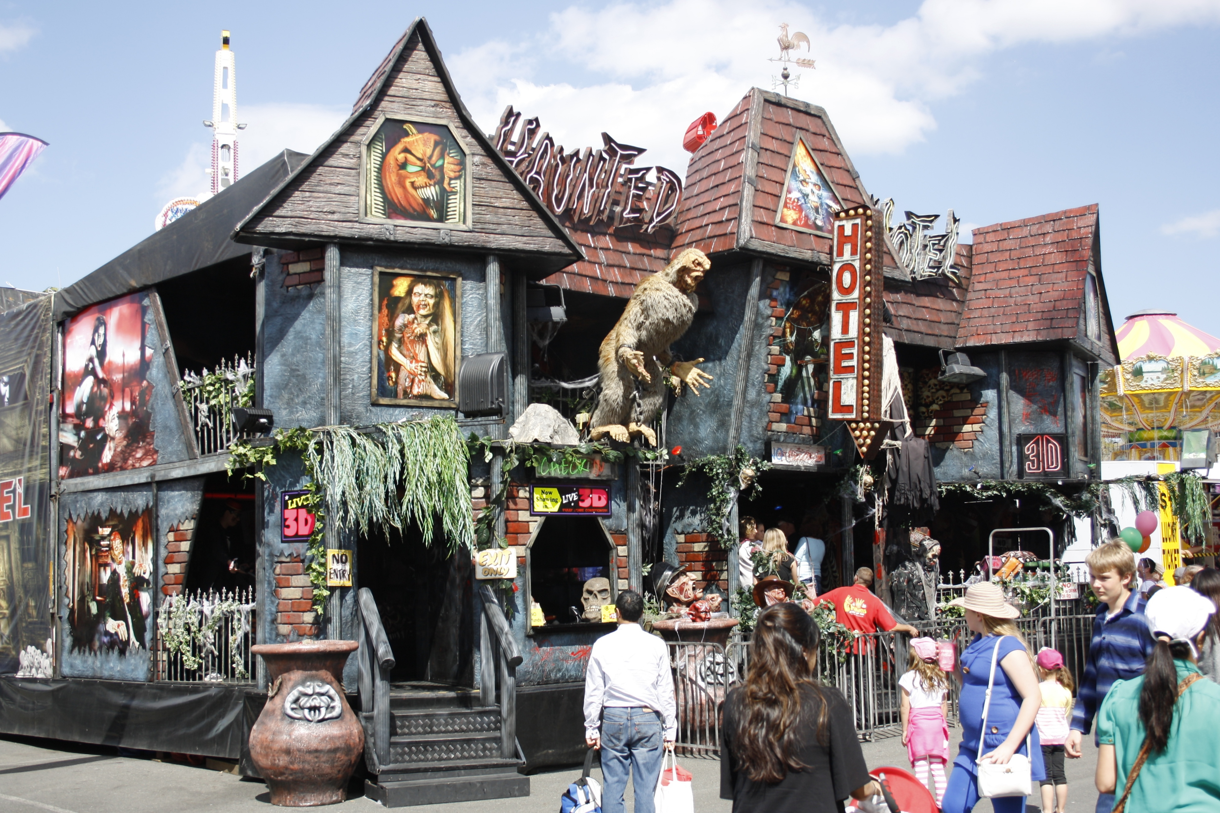 Ekka, 2013. Haunted Hotel